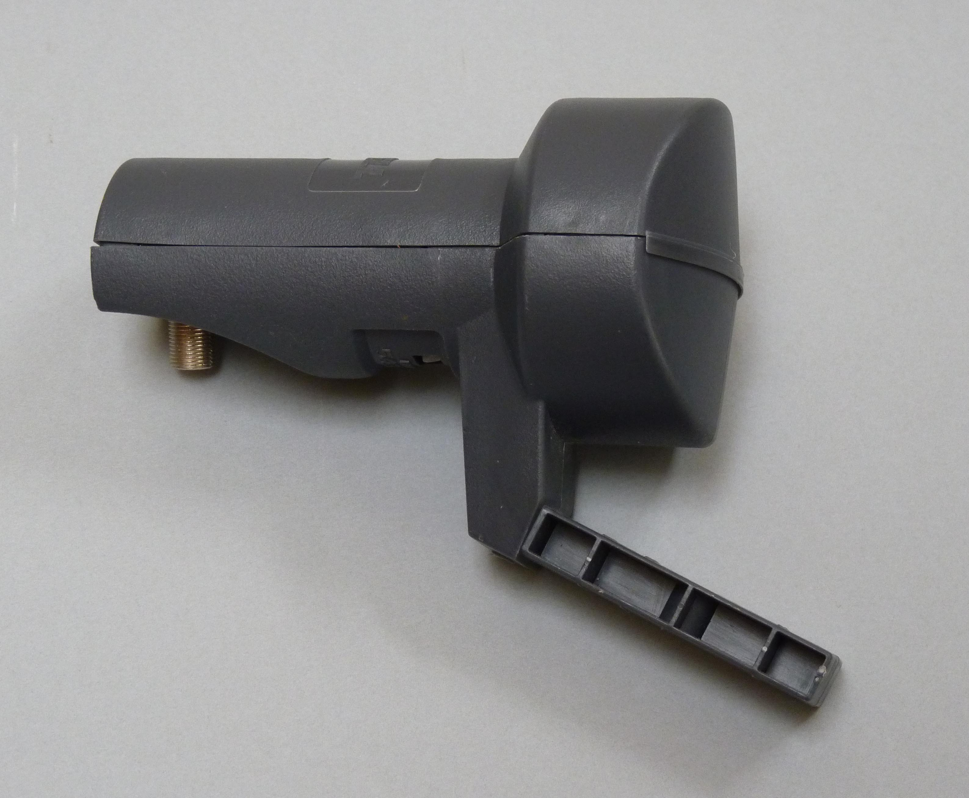 An LNB for the Sky Digital and Freesat satellite TV system in the UK